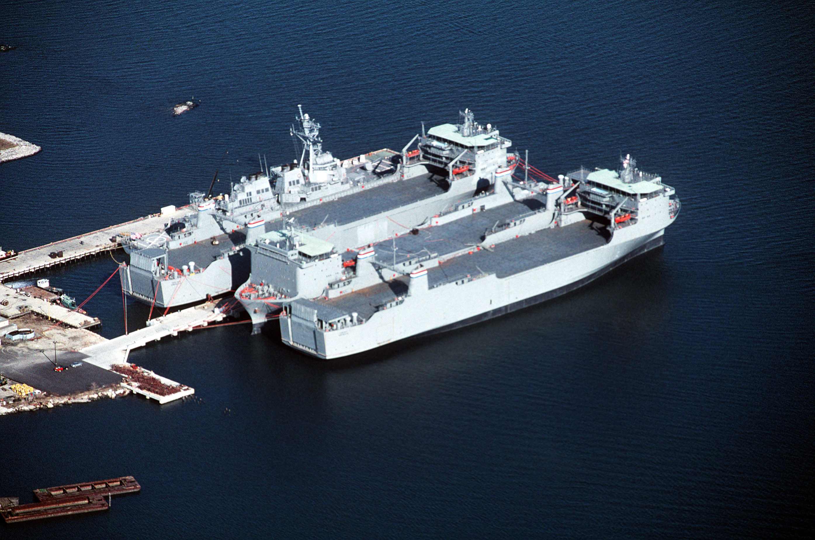 An aerial view of the Moon Engineering Company pier on the Elizabeth River near near Norfolk, Virginia (USA), with various naval vessels tied up. From left to right: the U.S. Navy guided missile destroyer USS Arleigh Burke (DDG-51), the Military Sealift Command (MSC) chartered cargo ships USNS Cape Race (T-AKR-9960), USNS Cape Ray (T-AKR-9679) and USNS Cape Rise (T-AKR-9678).